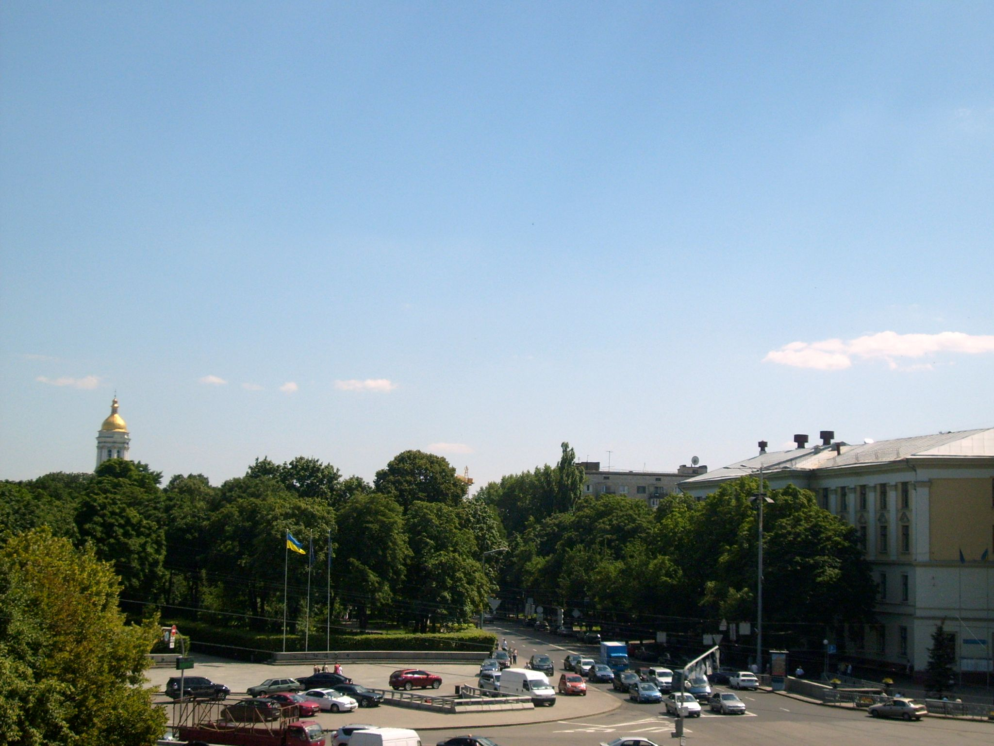 View_of_Glory_Sq_from_Salut_Hotel_in_Kiev